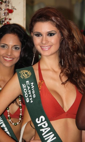 Alejandra Echevarría Pedrajas, Miss Spain Earth 2009, in Miss Earth 2009. Press Presentation November 4, 2009 in Valle Velarde 6, Pasig City, Philippines.